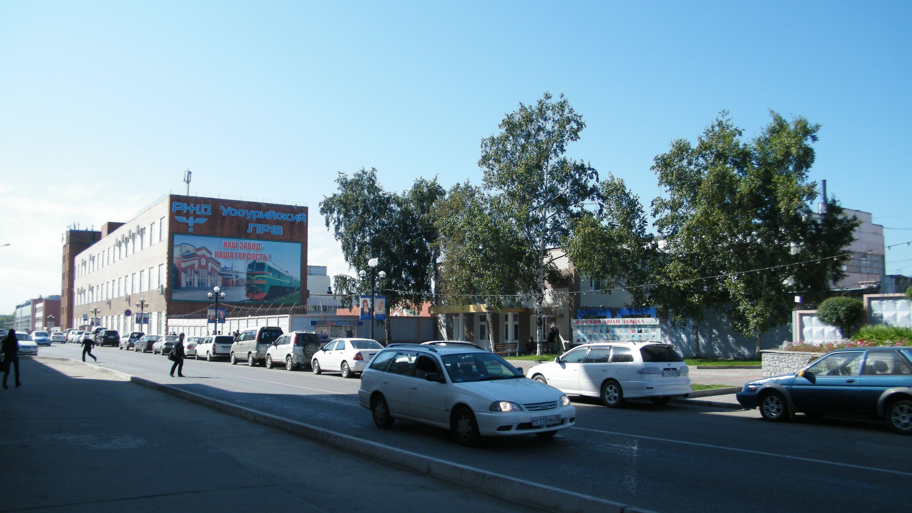 Проходная УЛРЗ